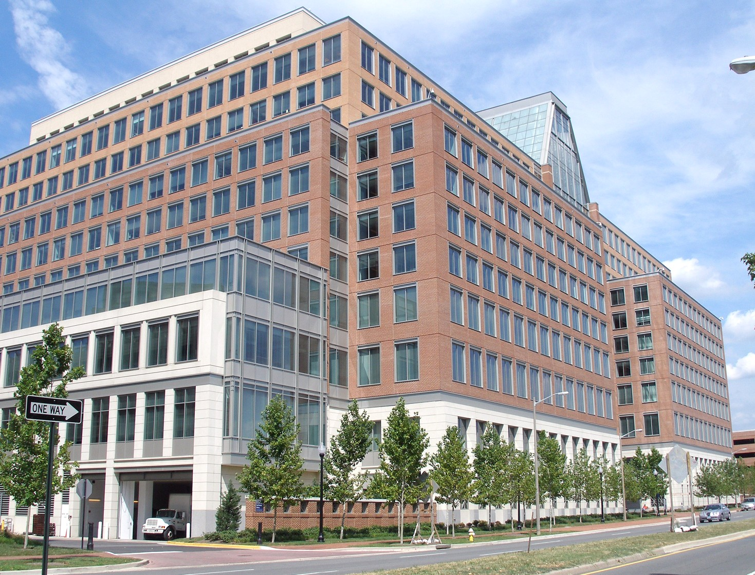 The south side of the James Madison Building in Alexandria, Virginia. It is one of the five buildings that forms the headquarters of the United States Patent and Trademark Office. All the top PTO officials have offices in this building.